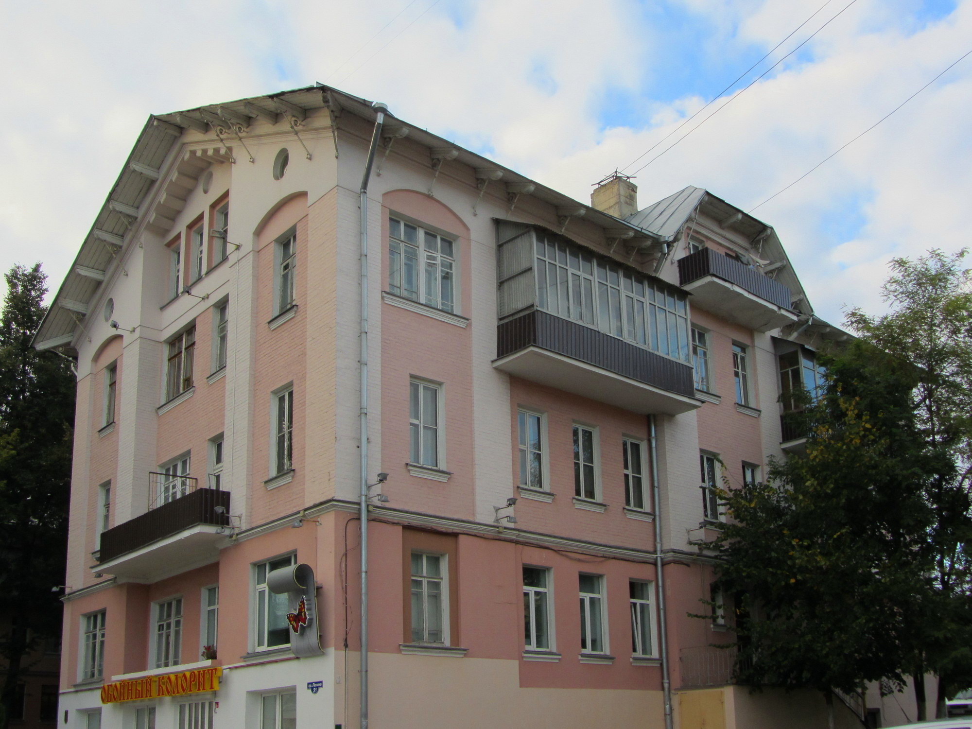 Беларуская (тарашкевіца): Будынак. г. Гомель This is a photo of Belarusian heritage monument. Reference number: 313Г000048 ( WLM)